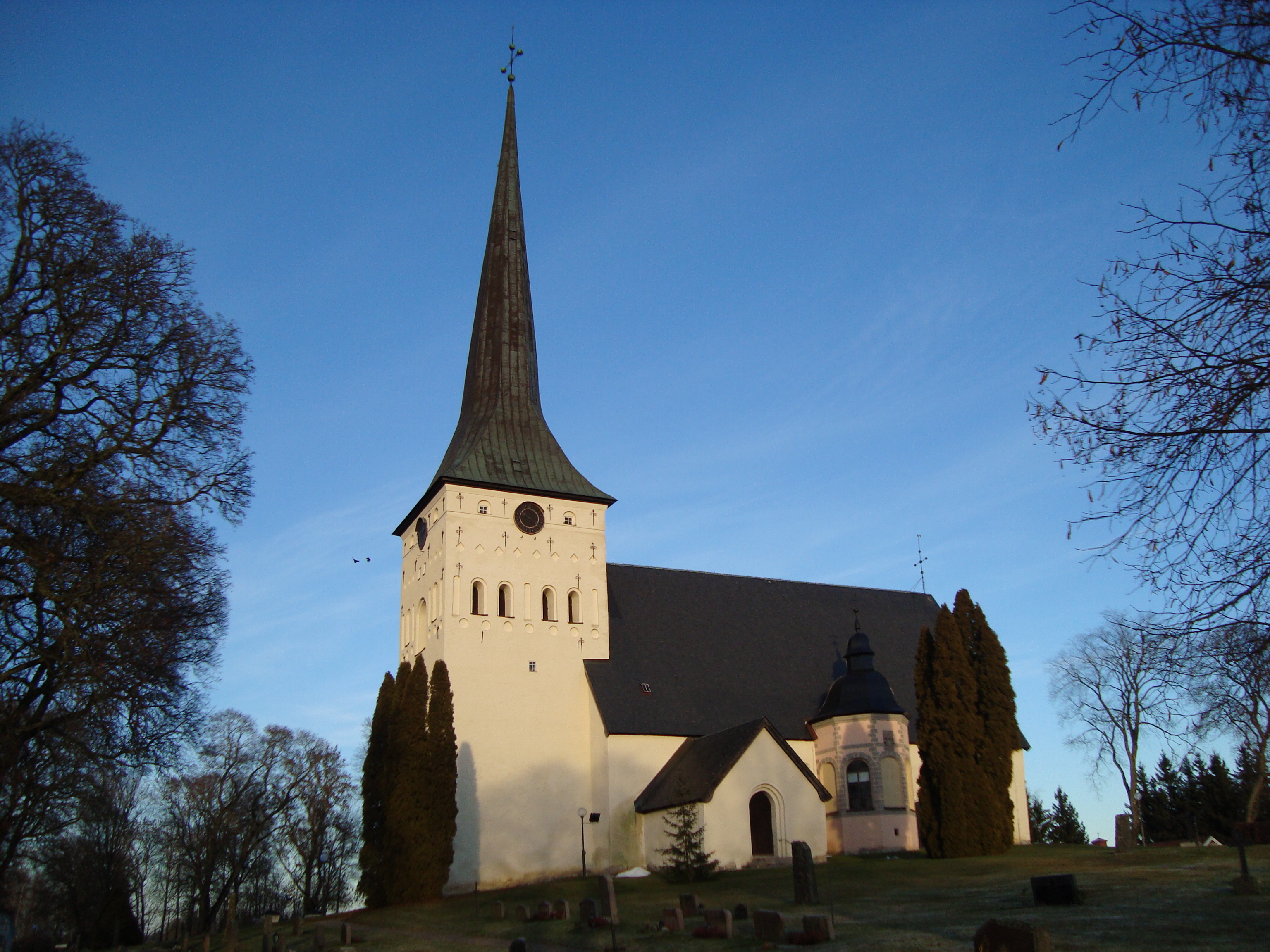 Romfartuna church, Västmanland, Sweden